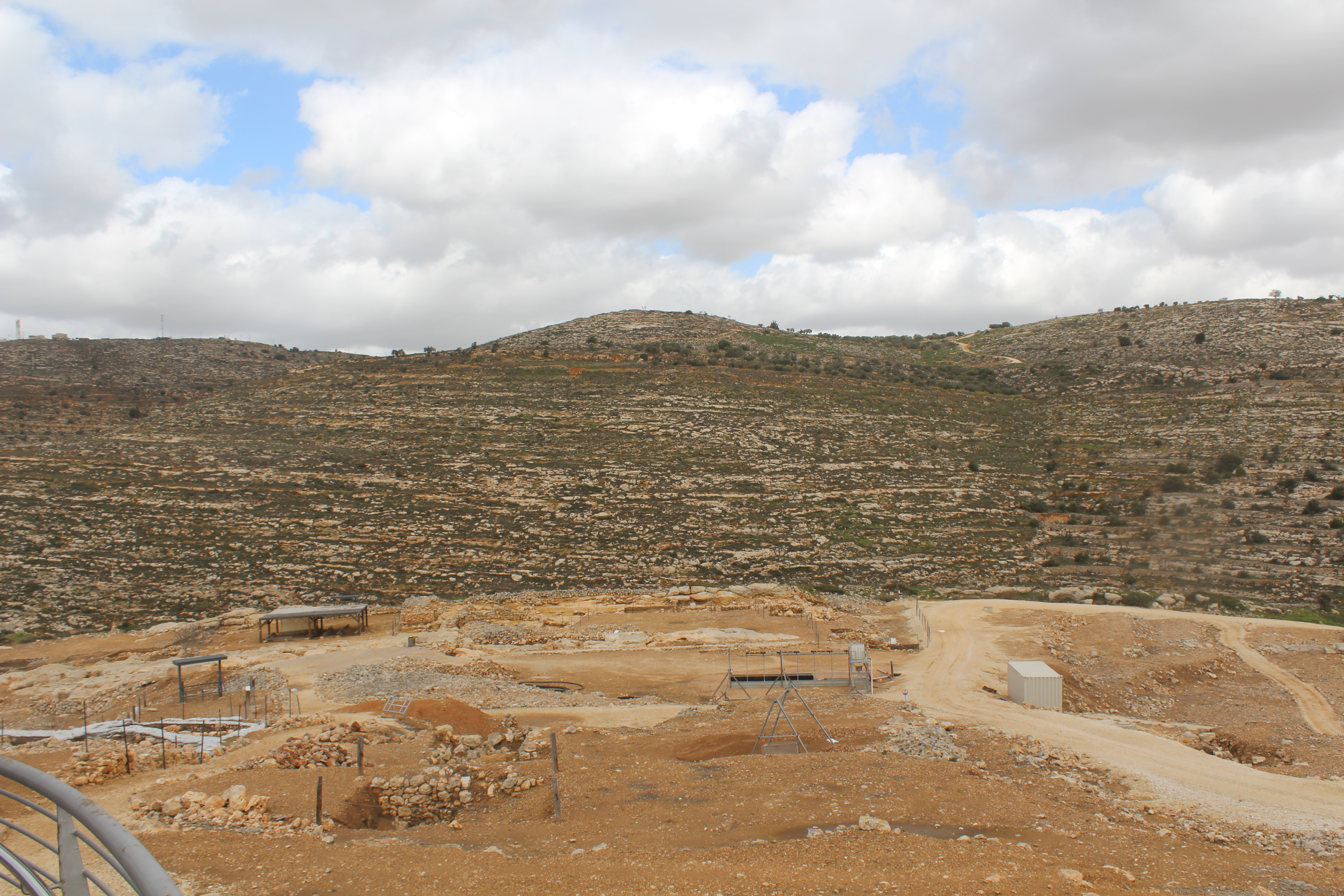 View from the Seer's Tower - Location and remains of the Tabernacle, Tel Shiloh, in Ancient Shiloh, in Israel This image was taken as part of the Elef Millim project trip to the Ancient Shiloh and Modern Shilo, in Mateh Binyamin, in Israel which was held on Friday, 8th February 2019. To view all images uploaded as part of the Elef Millim Project